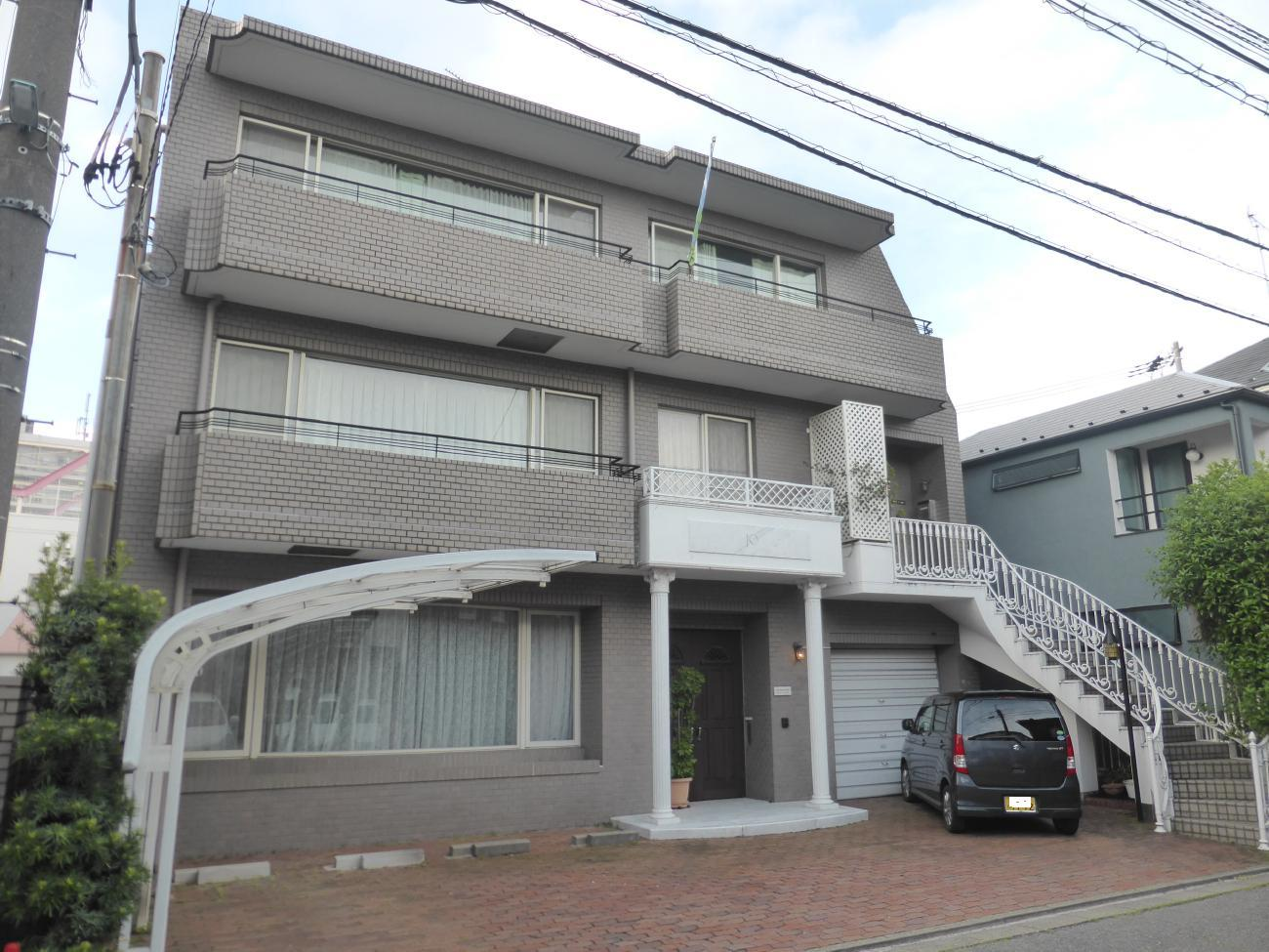 Embassy of Djibouti in Tokyo looks like an ordinary house.